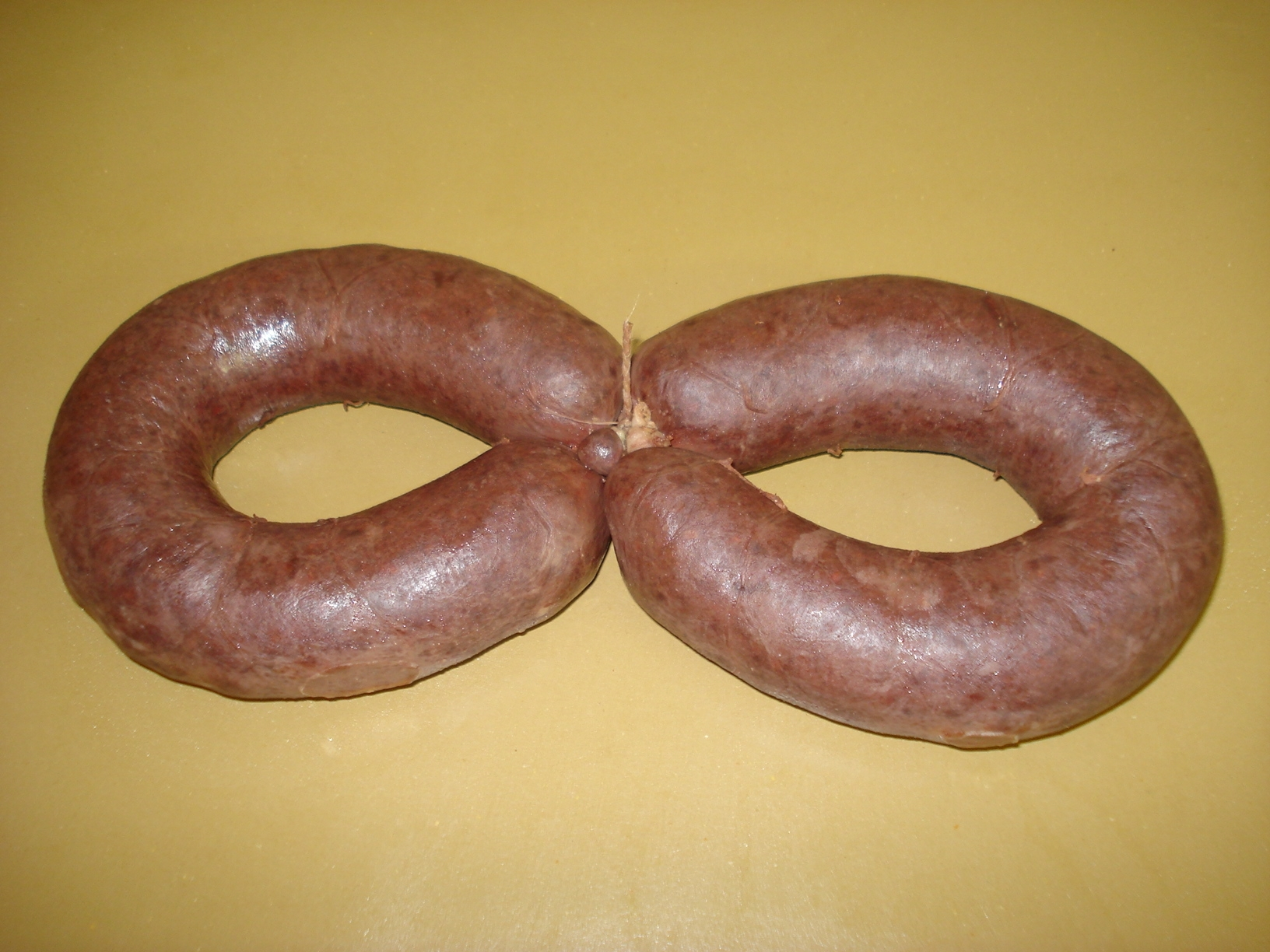 "Črna čurka" = Black pudding (blood pudding) from Medjimurje County (Croatia)